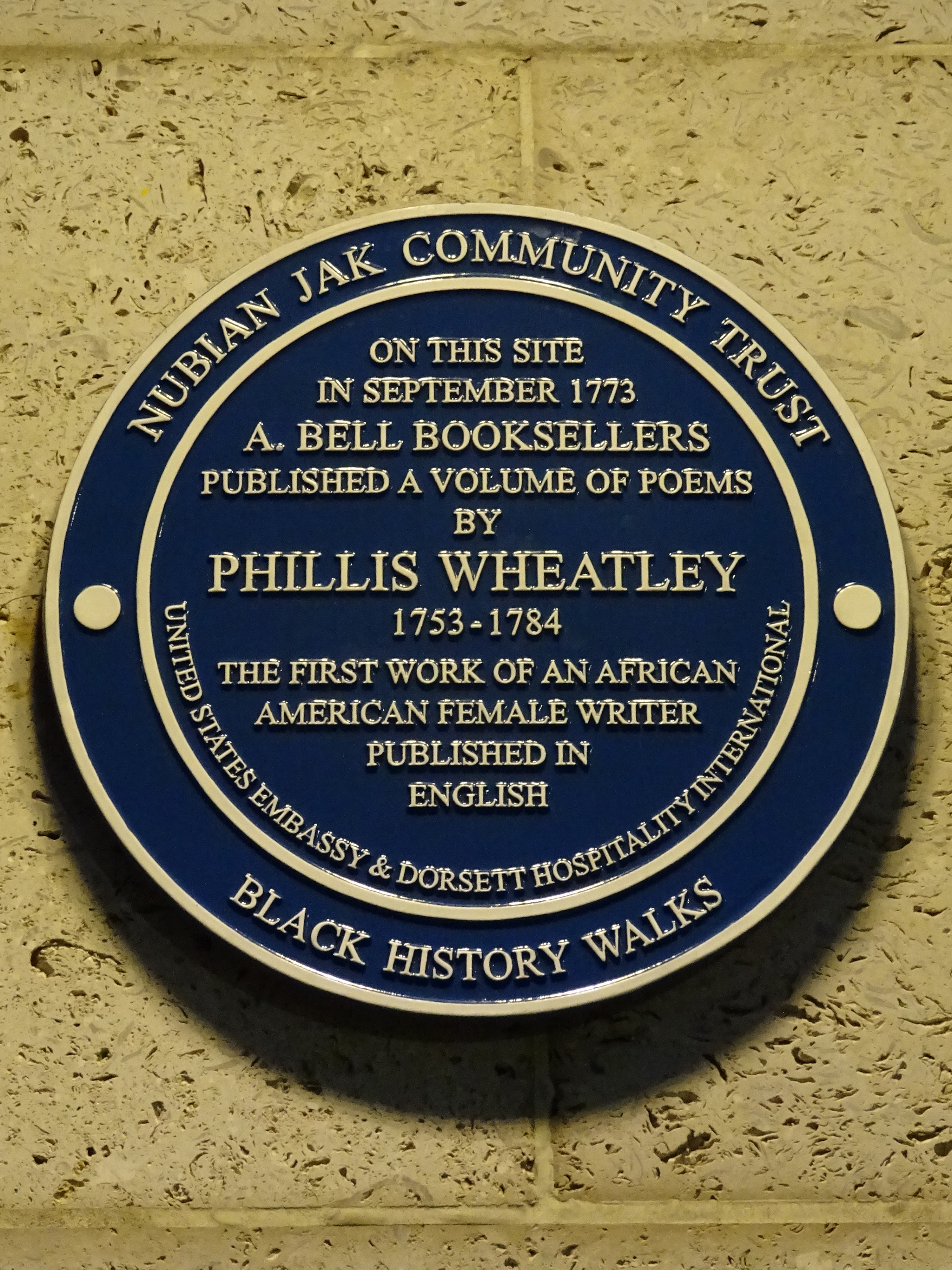 Phillis Wheatley plaque - 9 Aldgate High Street. London EC3N 1AH